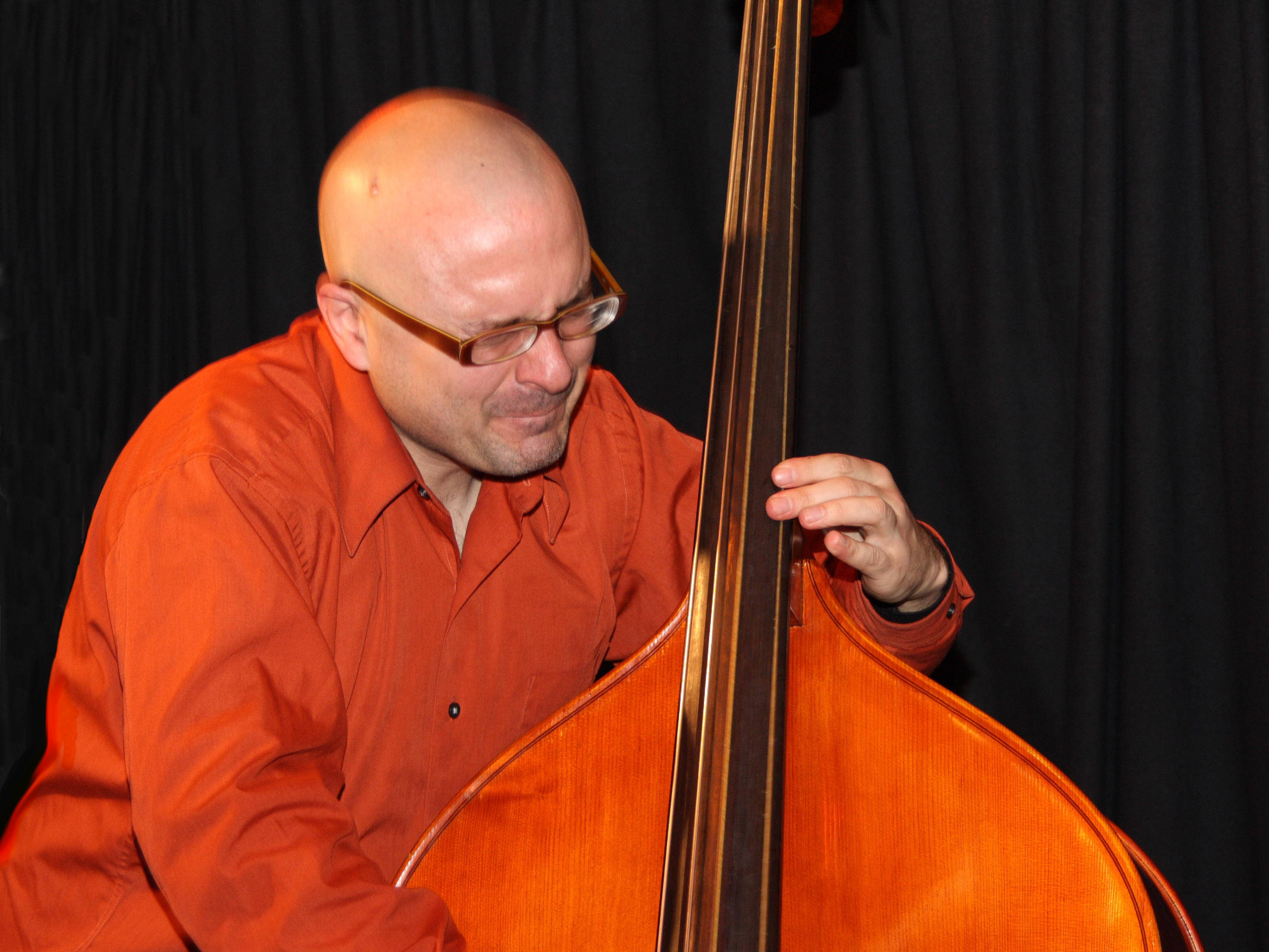 Jason Roebke on doublebass with Locksmith Isidore at Club W71, Weikersheim